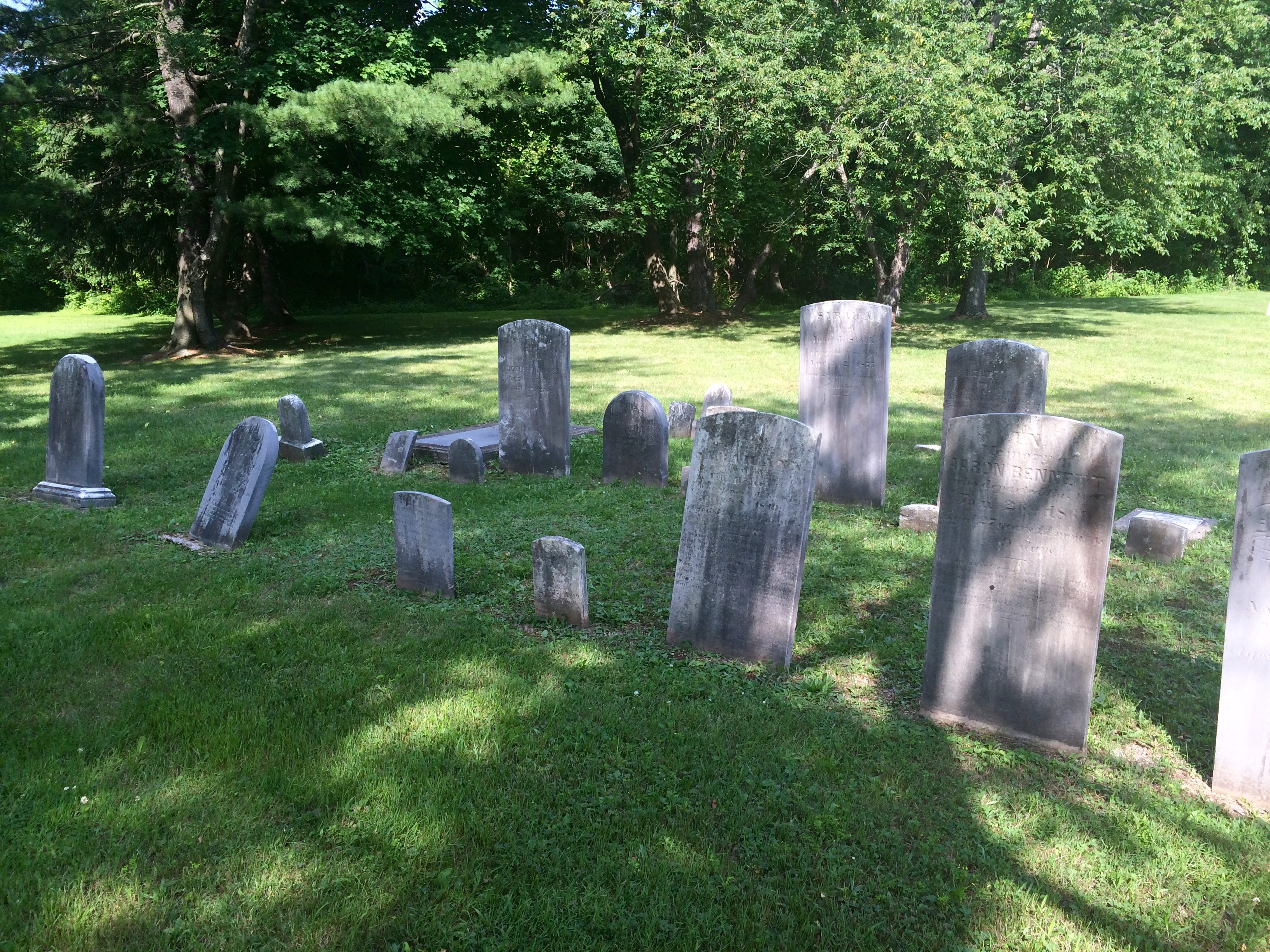 The Princessville Cemetery in Lawrence Township, New Jersey. Founded 1843 when the colonial era Princessville Inn donated 3/4 acre for a Methodist Episcopal Church. The church was moved in 1890 after which a small church was built on the site by local African-American families. The church was destroyed by a hurricane in 1950 and the Inn by fire in 1982. The graves date from 1846-1921.